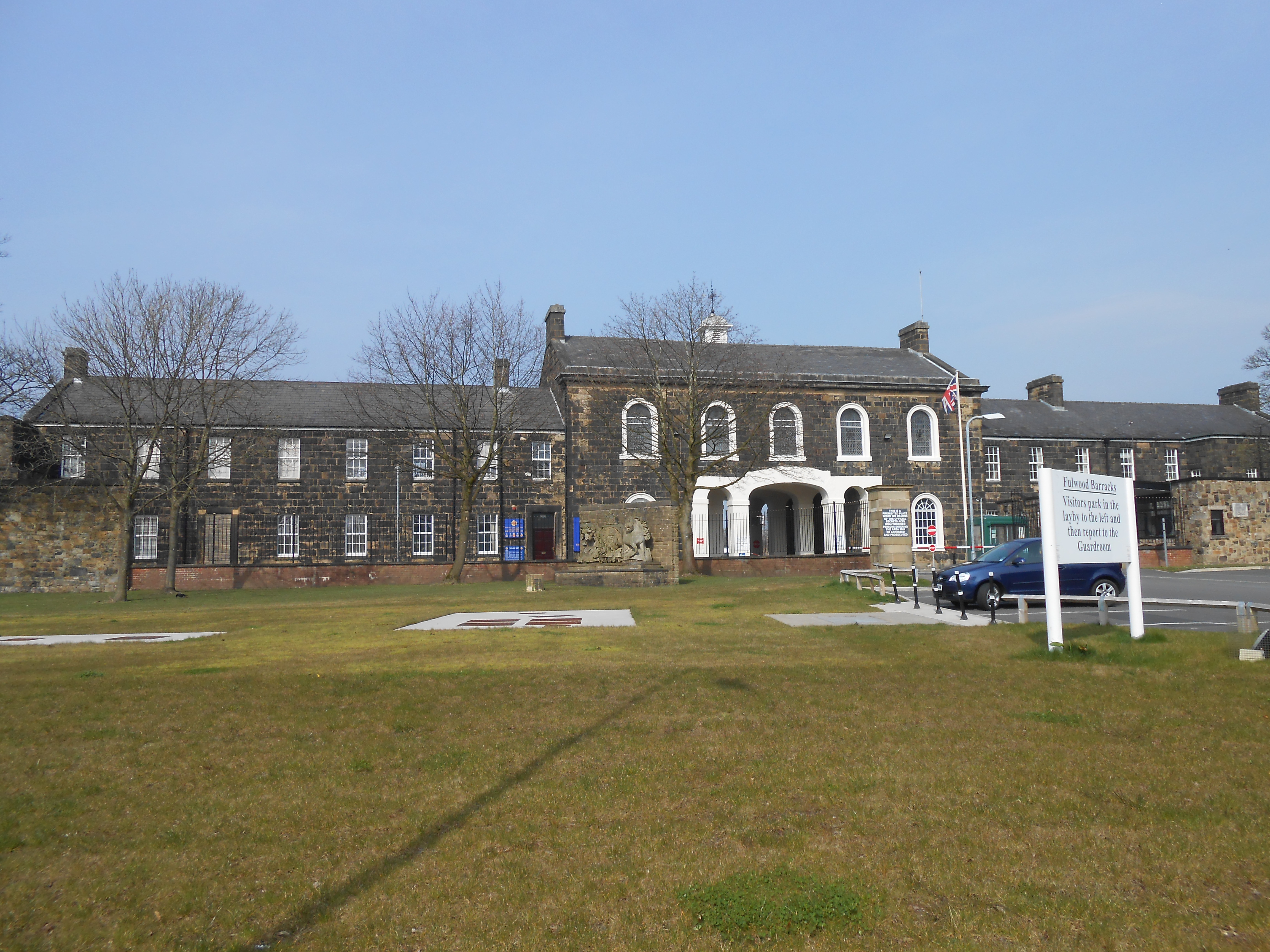 Fulwood Barracks, Watling Street Road, Fulwood, Preston.